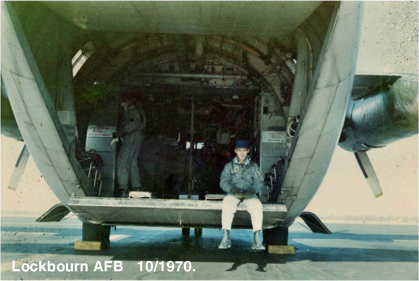 This is a picture of Pham Quang Khiem at Lockbourne AFB in October of 1970.